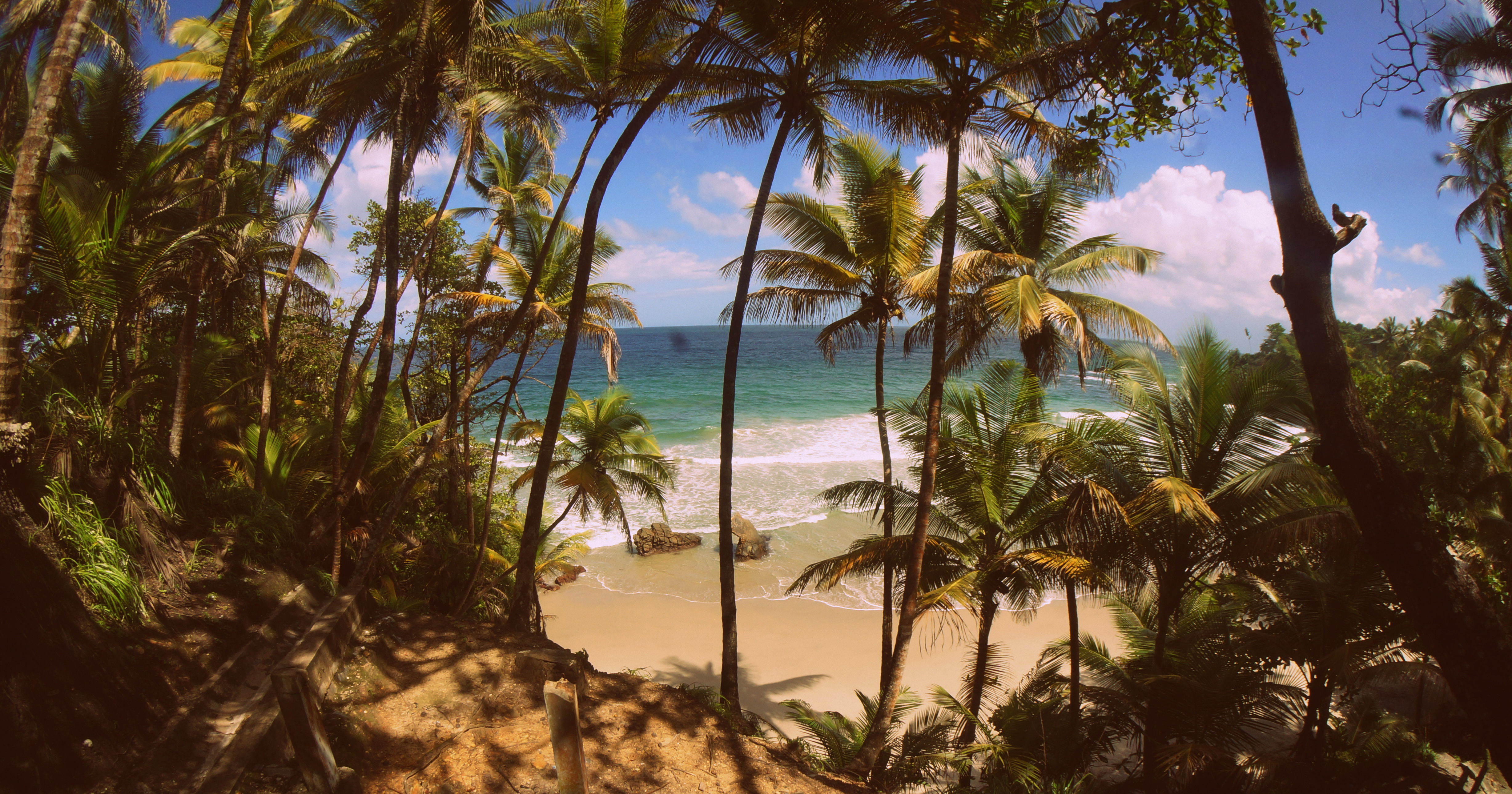 Blanchisseuse Beach on the north coast of Trinidad. More freely usable pictures of the Beaches of Trinidad.